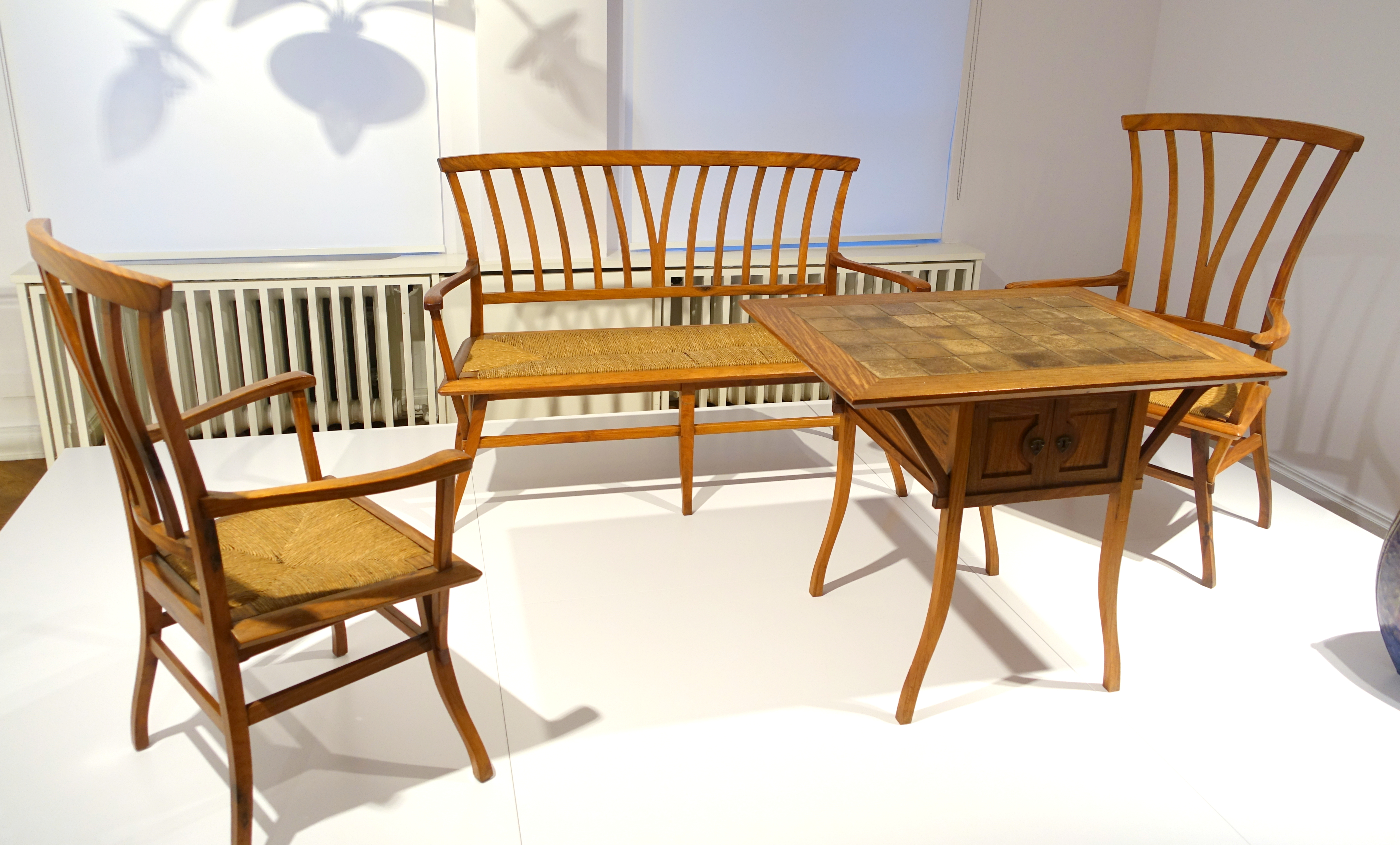 Exhibit in the Bröhan Museum, Berlin, Germany.